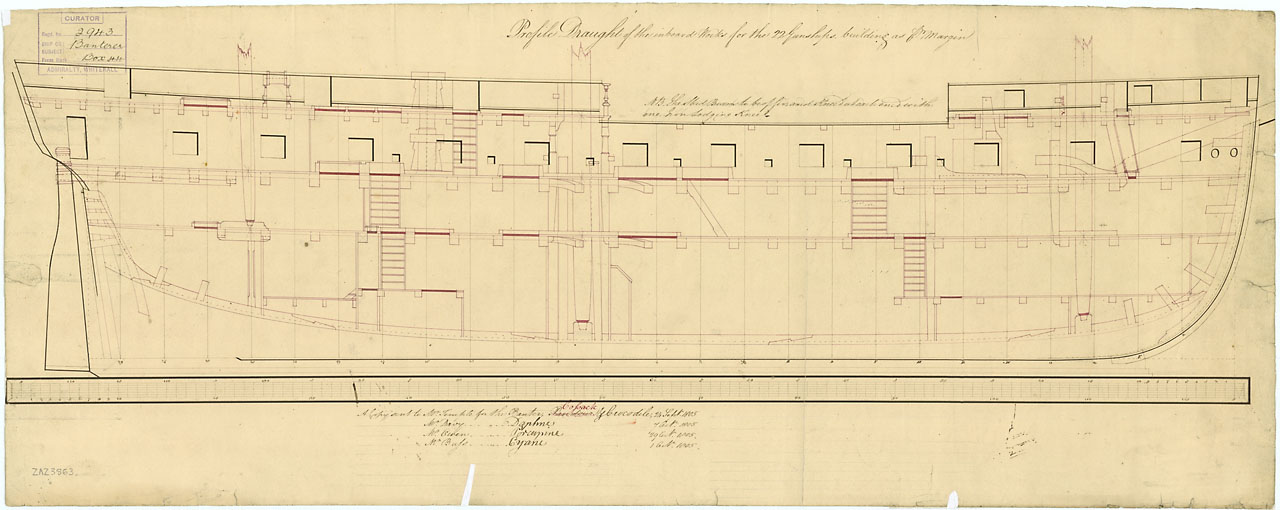 BANTERER 1807 Inboard profile plan